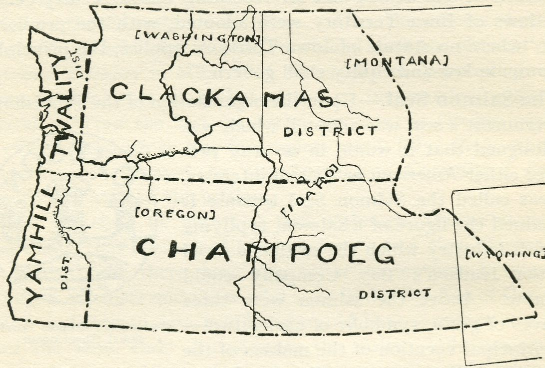 Map of the administrative districts of the Provisional Government of Oregon, as of 1843.